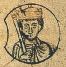 Otto II, Holy Roman Emperor